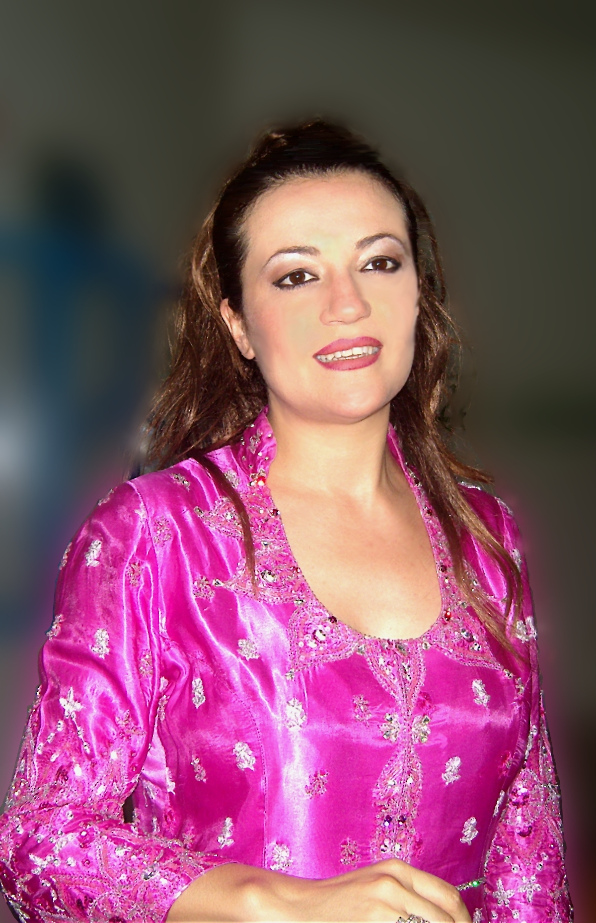 This Photo has been taken with a Samsung NV20 digital camera.